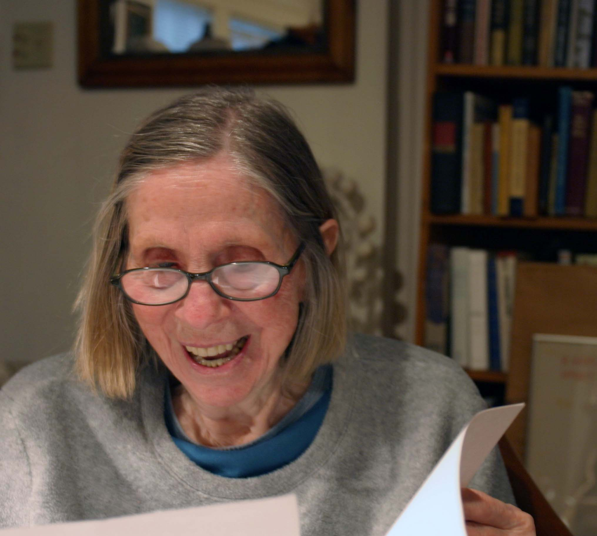 Barbara Guest, photographed by Gloria Graham during the video taping of Add-Verse, 2003.